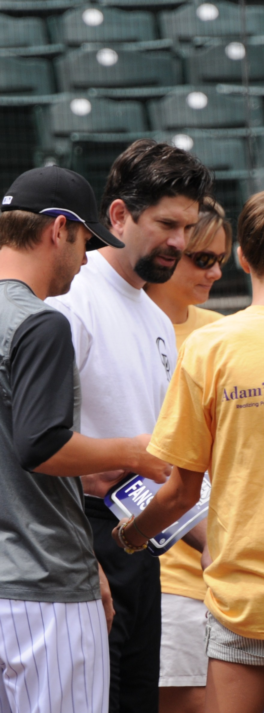 Description own work DateSourceI created this work entirely by myself.AuthorOnetwo1 (talk) 17:07, 8 August 2008 . . Onetwo1 . . 880×2,372 (330 KB) own work